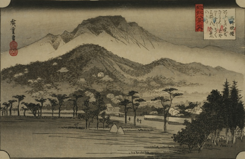 Series “Eight views of Ōmi“, title “Evening temple at Mi temple„, first edition